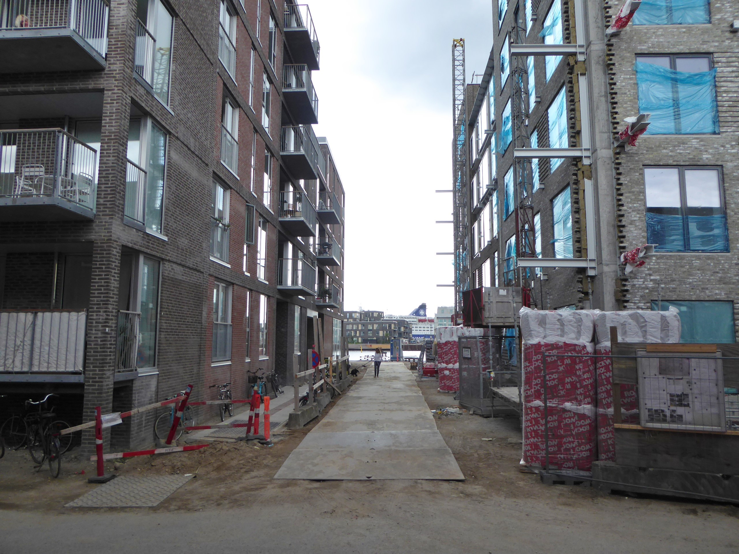 The street Ystadgade under construction in Nordhavn in Copenhagen. The building at the left is named Kajplads 109 and the one at right Havnekanten.